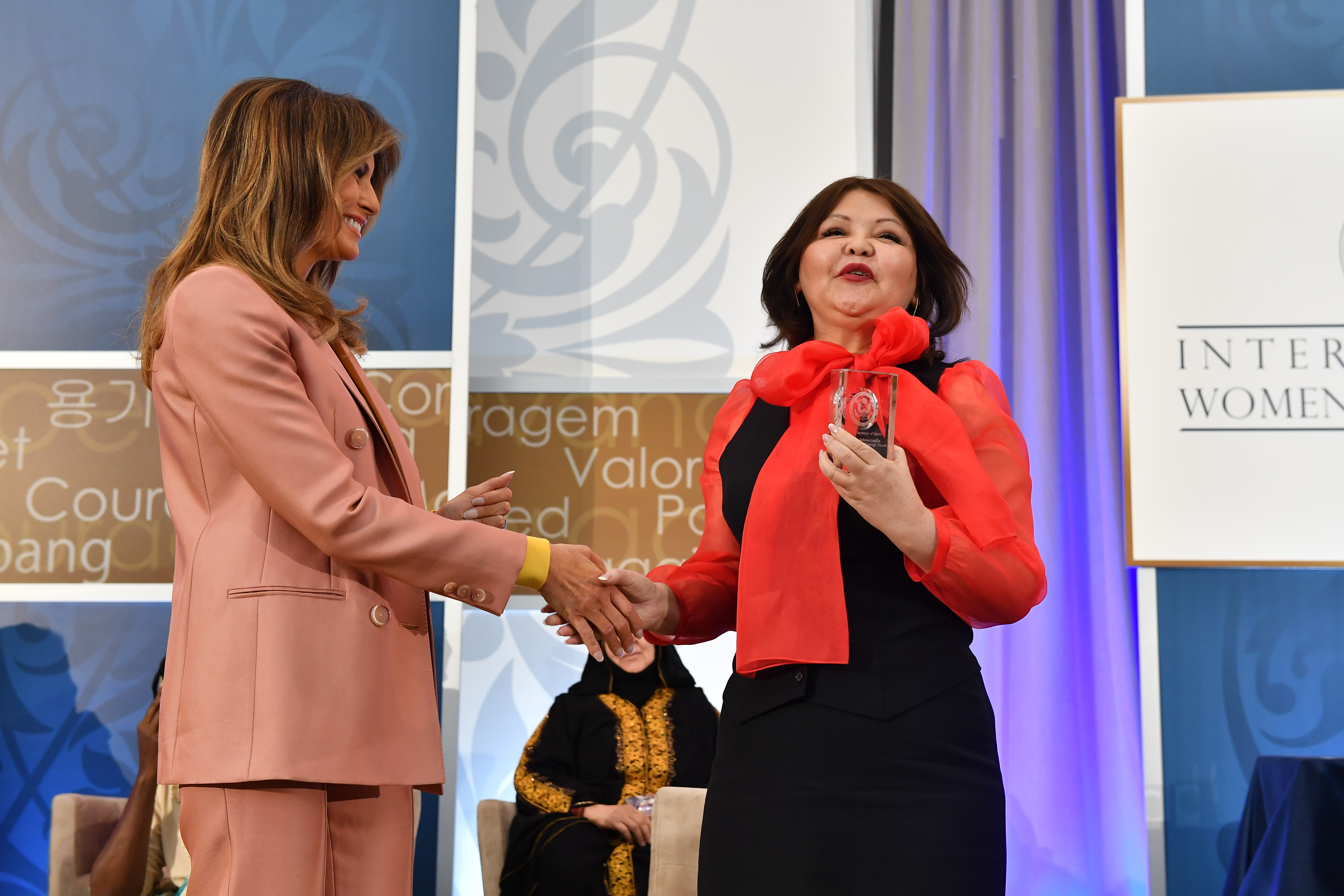 "First Lady Melania Trump Presents the 2018 IWOC Award to Aiman Umarova of Kazakhstan First Lady of the United States Melania Trump presents the 2018 International Women of Courage (IWOC) Award to Aiman Umarova of Kazakhstan during a ceremony at the U.S. Department of State in Washington, D.C. on March 23, 2018."